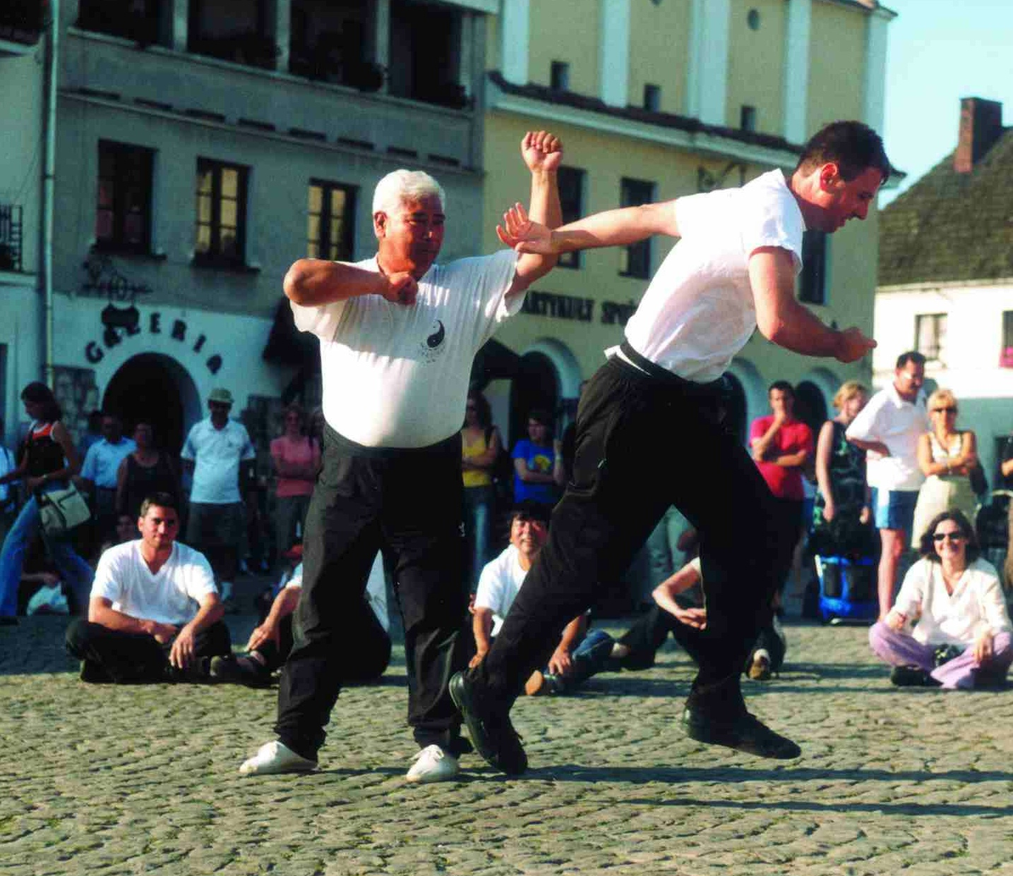 Ma Jiangbao and Martin Boedicker in Kazimierz